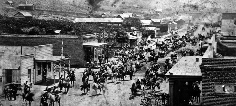 Fouth of July parade in old Ventura in 1874, when Thomas R. Bard was Grand Marshall.